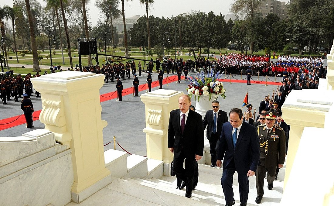 Vladimir Putin met with President of the Arab Republic of Egypt Abdel Fattah el-Sisi at the Al-Qubba Palace in Tahrir Square, Cairo.